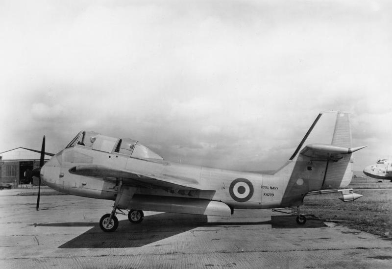 The Short S.B.6 Seamew (XA209).